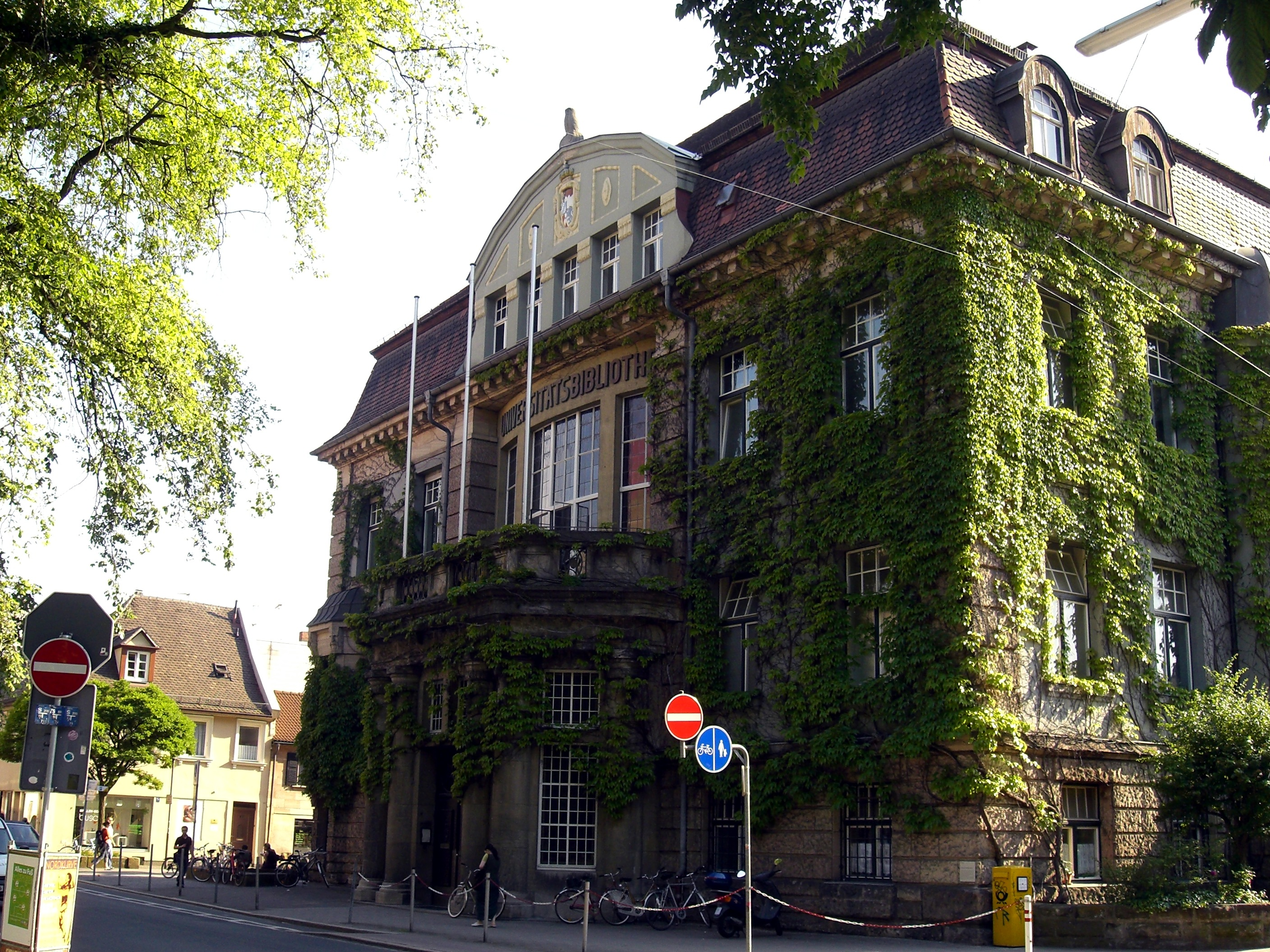 Altes Gebäude der Universitäts-Bibliothek (UB) der de: Friedrich-Alexander-Universität Erlangen-Nürnberg in Erlangen, Germany. Heute Sitz des Universitätsarchives und eines Teils des historischen Buchbestandes. Das neue Zentral-Bibliotheksgebäude befindet sich gegenüber und ist mit diesem Archiv über unterirdische Transportbänder verbunden. The old building of the library of the en: Friedrich-Alexander-University, Erlangen-Nuremberg in Erlangen, Germany. Today it houses the archive of the university and the historical part of the library. Face to face, not taken on this photography, the new central building of the library is situated.